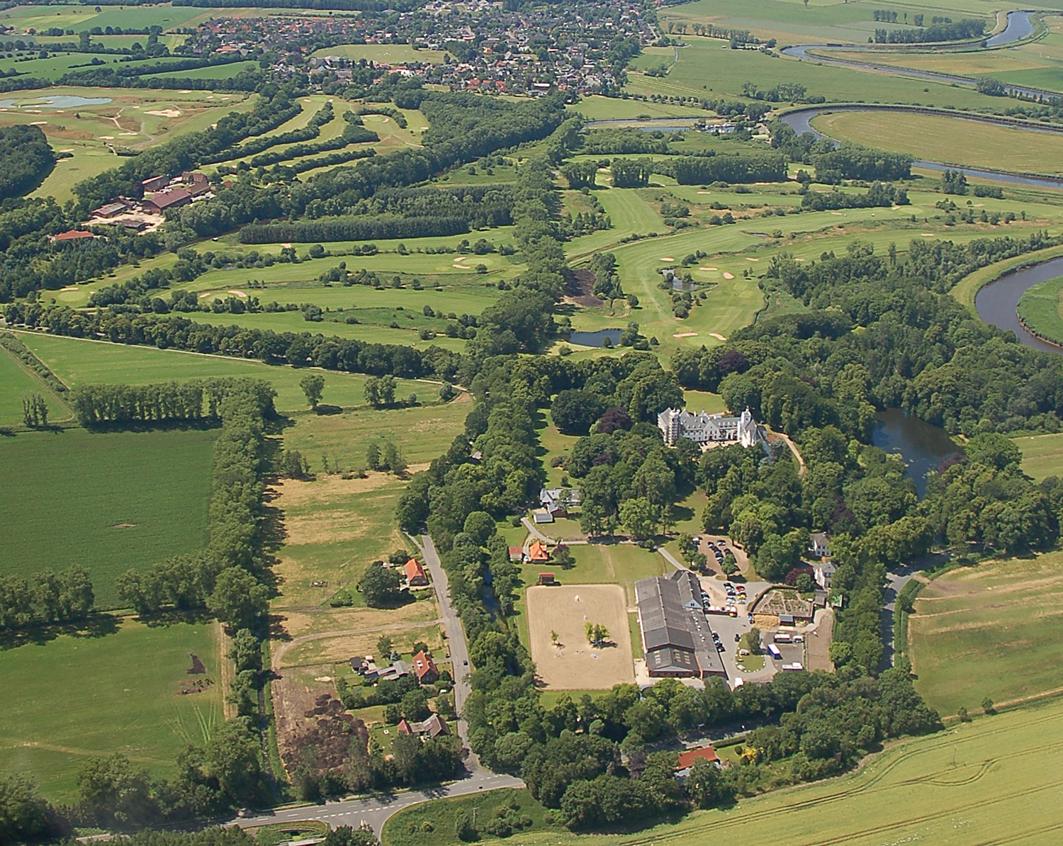 "Schloss Breitenburg" as seen from Helicopter